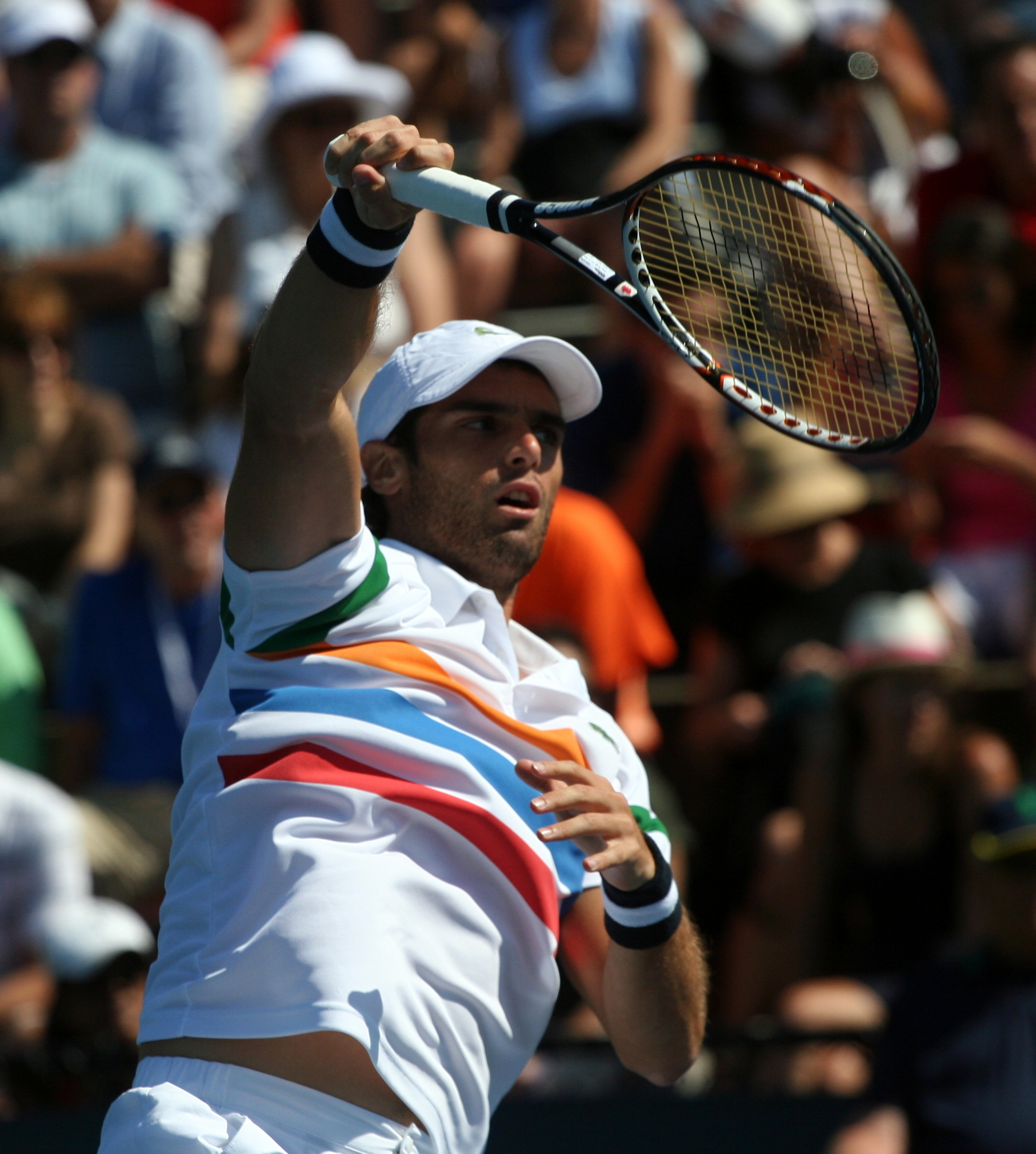 Pablo Andújar at the 2012 US Open